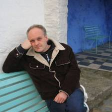 Patrick McGuinness